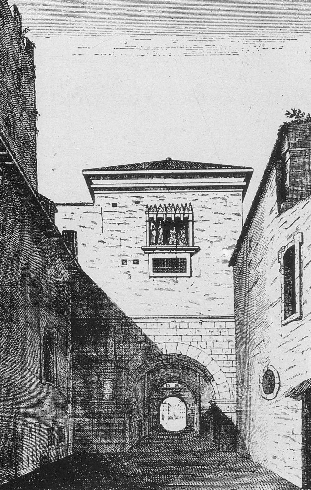 The Porta Roman of Milan in the Middle Ages